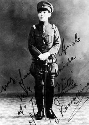 Yoshiko Kawashima (1907–48)